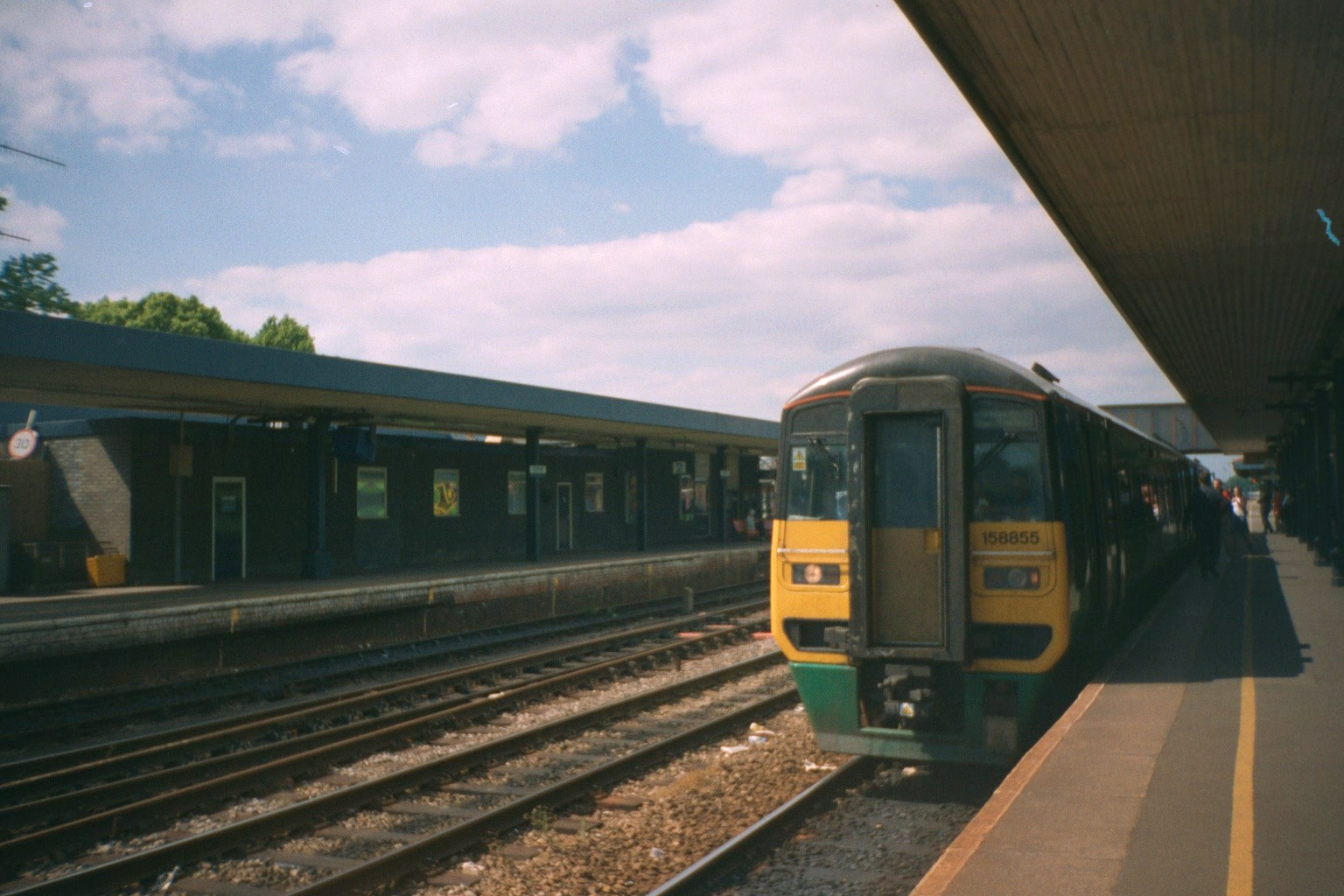 The exterior of a Central Trains owned Class 158 'Express Sprinter' DMU 158855 at Oxford in 2003. The unit ran a brief experimental between shuttle service Oxford and Stratford upon Avon, via Warwick, Leamington Spa, Banbury (2000-2003). The image is infact from 2001.